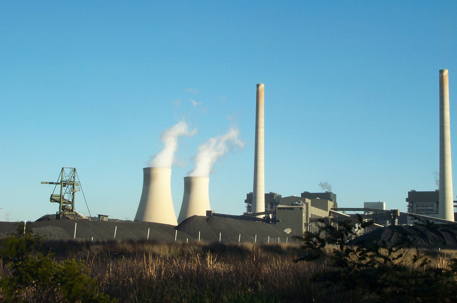 Bayswater Power Station with coal